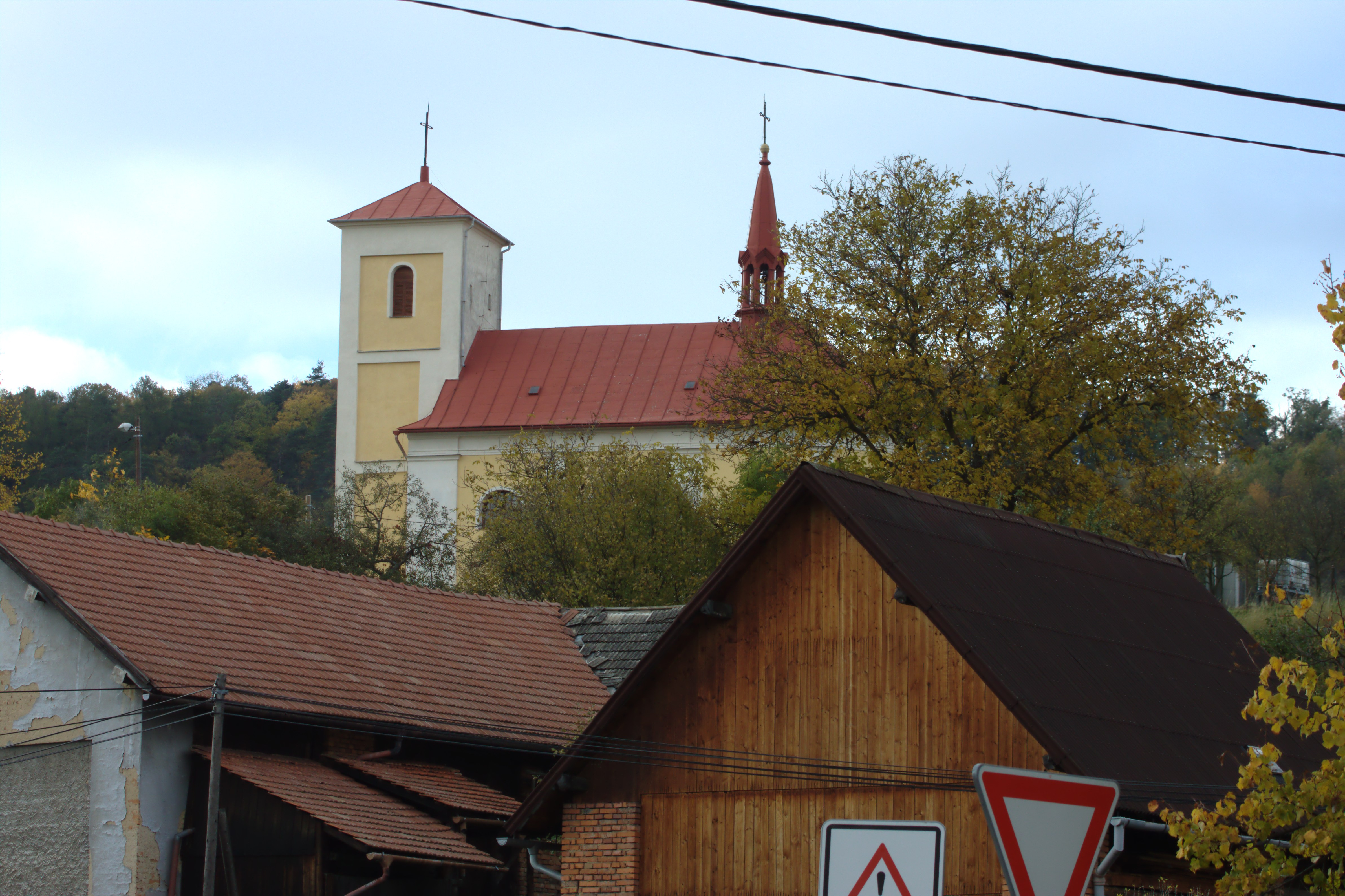 Thec church in Lukavec near Fulnek, seen from the local common, CZ